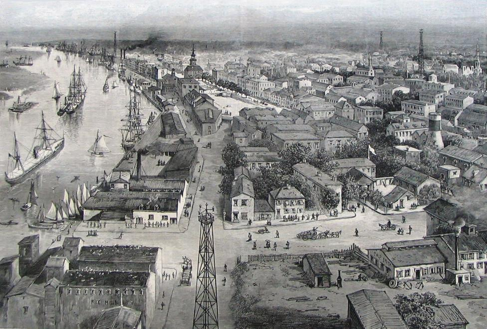 The City and Harbor of Savannah, Georgia, a wood engraving drawn by J. O. Davidson and published by Harper's Weekly, November 1883.